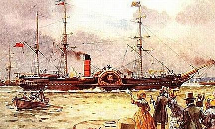 RMS Britannia (1840) Built by: Robert Duncan, Cartsdyke Launch Date: 5.2.1840 Date of completion: 6.1840 Tons: 1156 1849 Renamed: BARBAROSSA 1880 Broken up in Kiel